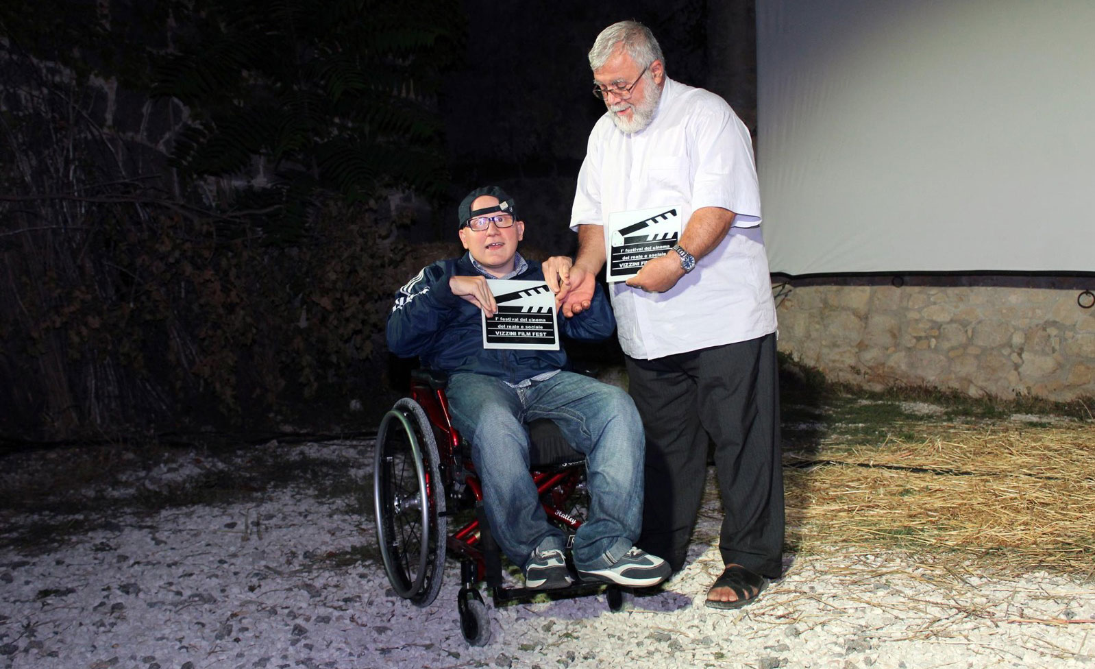 Film Festival Vizzini 2